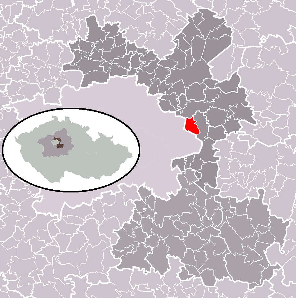 Location of Šestajovice municipality within Prague-East District and administrative area of Brandýs nad Labem-Stará Boleslav as a Municipality with Extended Competence.